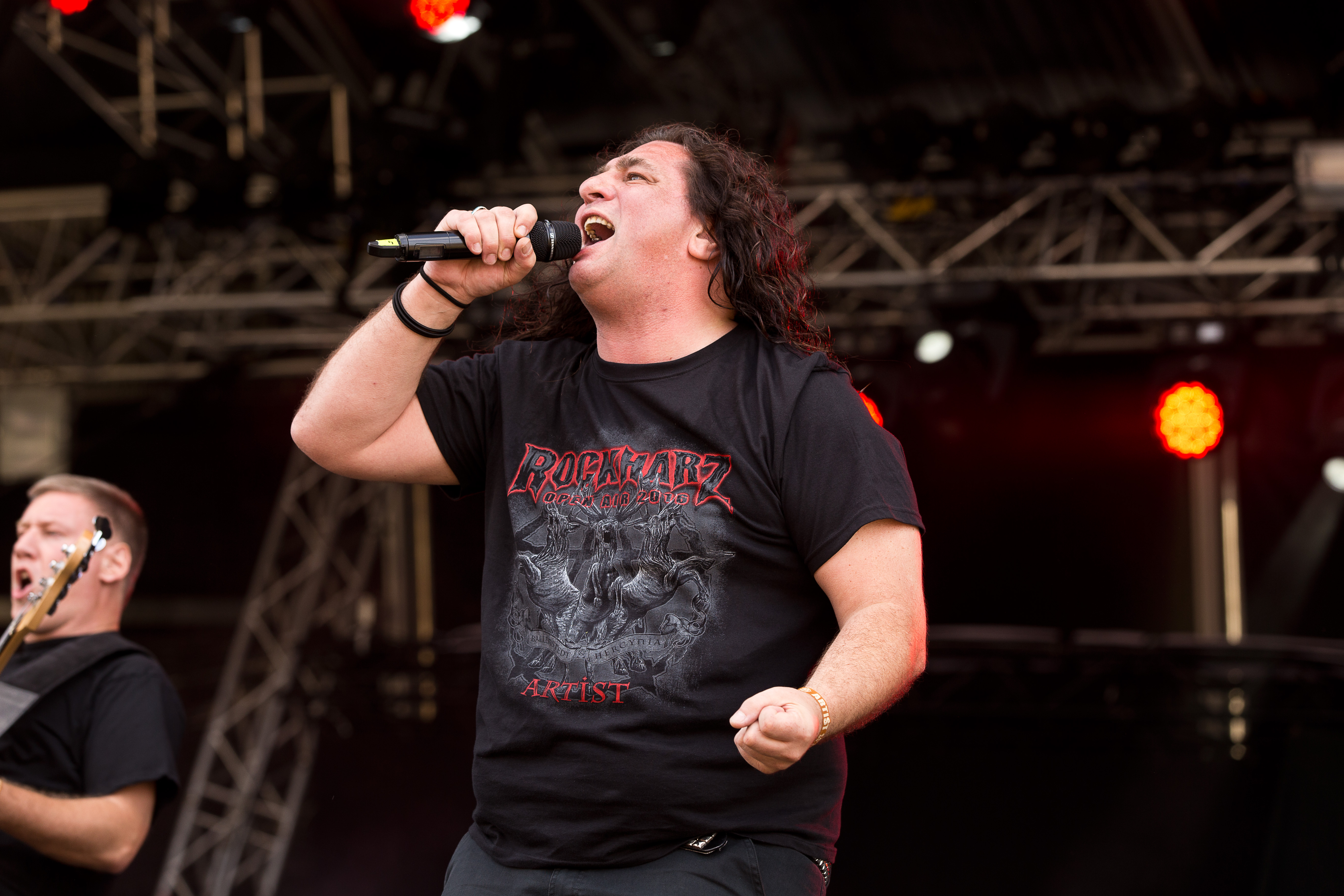 The German thrash metal band Tankard at the Rockharz Open Air 2016 in Ballenstedt/Germany.